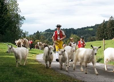 appenzell alpfahrt